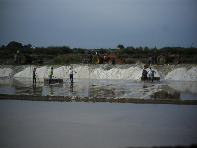 Salt evaporation pond near Tavira, Portugal